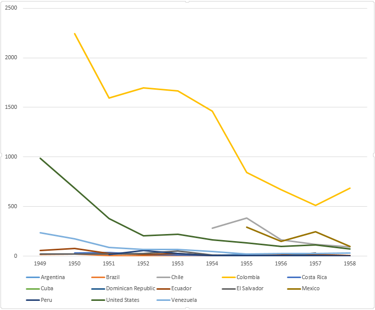 Reported cases of flea-borne typhus (murine) in american countries for the period 1949-1958.[1]